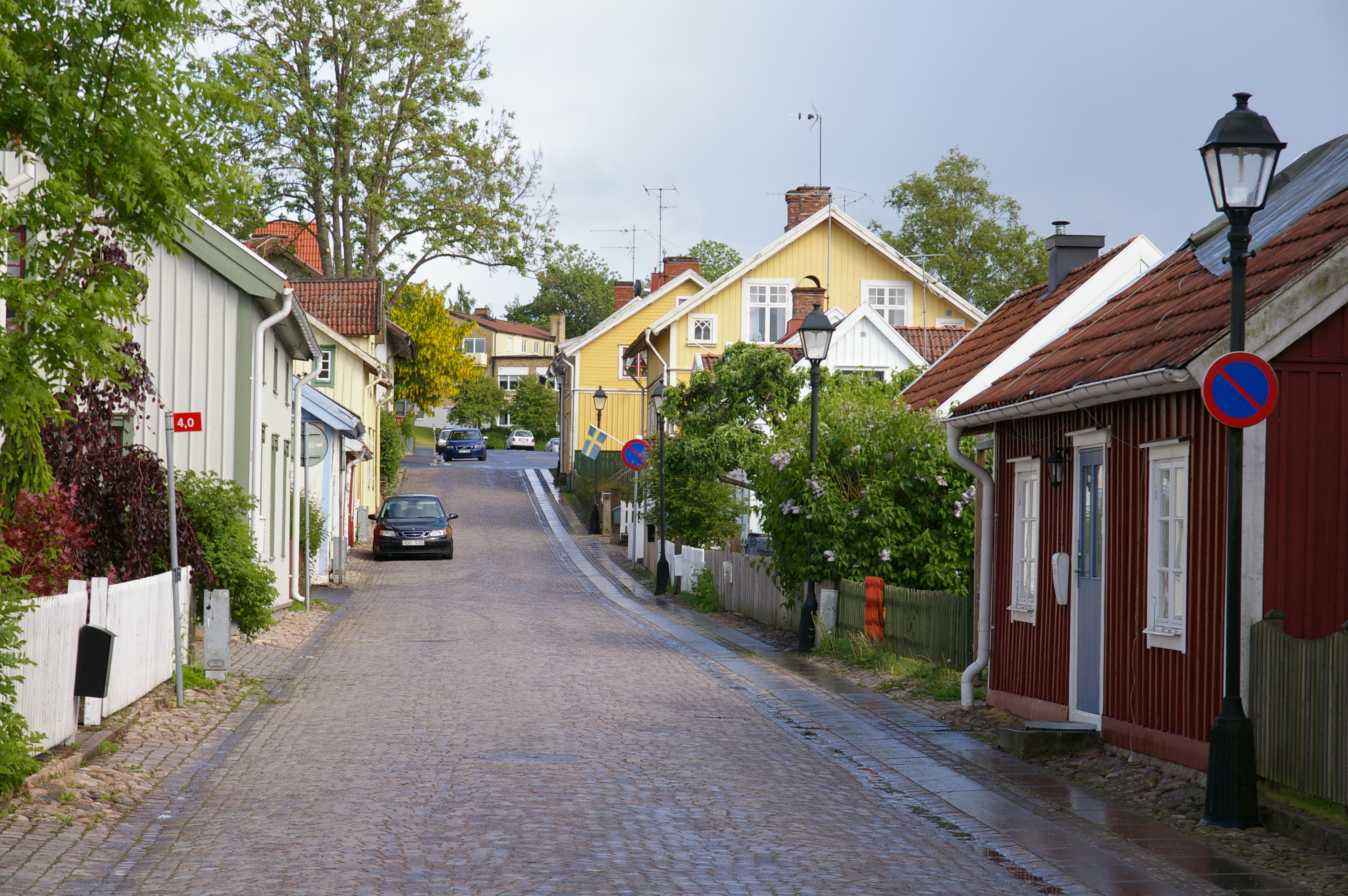 Repslagaregatan in Falköping, Sweden